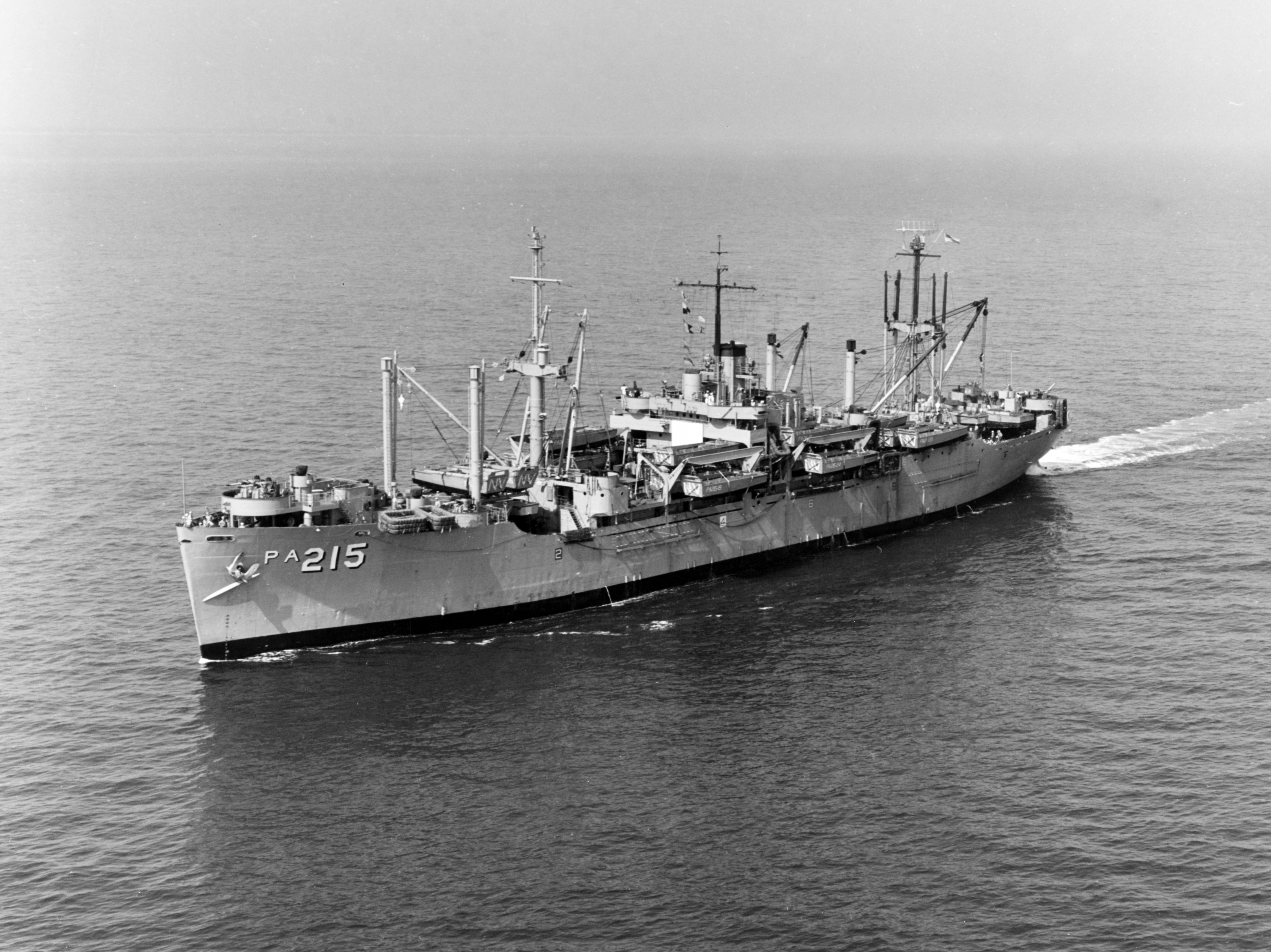 The U.S. Navy attack transport USS Navarro (APA-215) underway off Norfolk, Virginia (USA), circa in 1964.